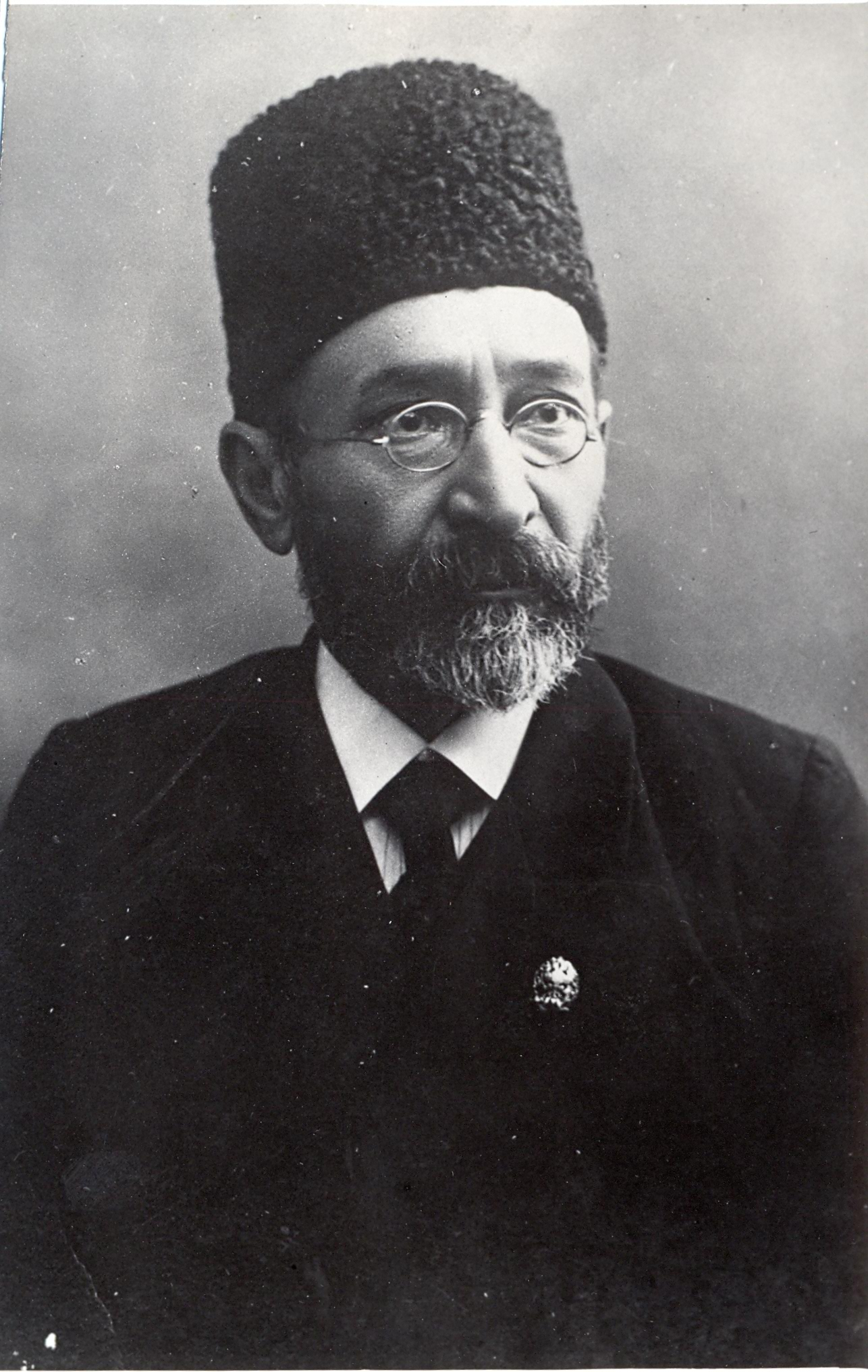 Najaf bey Vazirov (1854-1926)